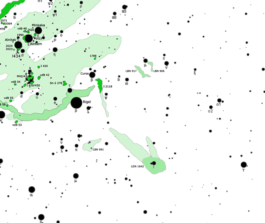 Map of Orion Molecular Outlying Cloud